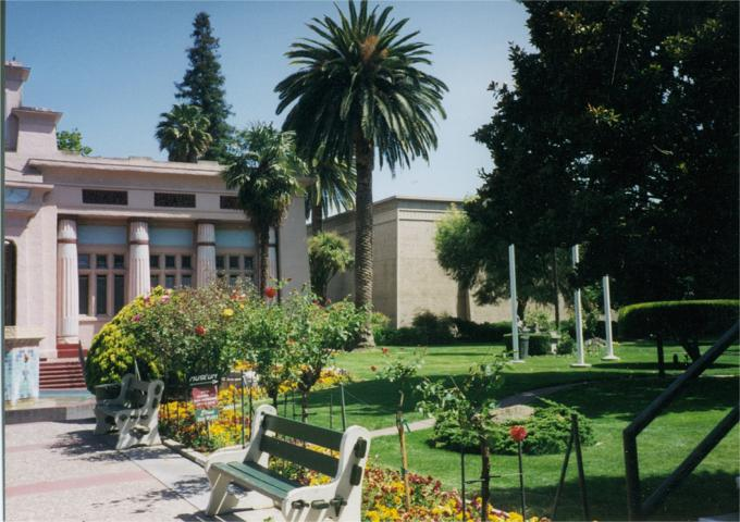 This is a picture of the Rosicrucian University building in San Jose, California. Picture taken circa 1994.